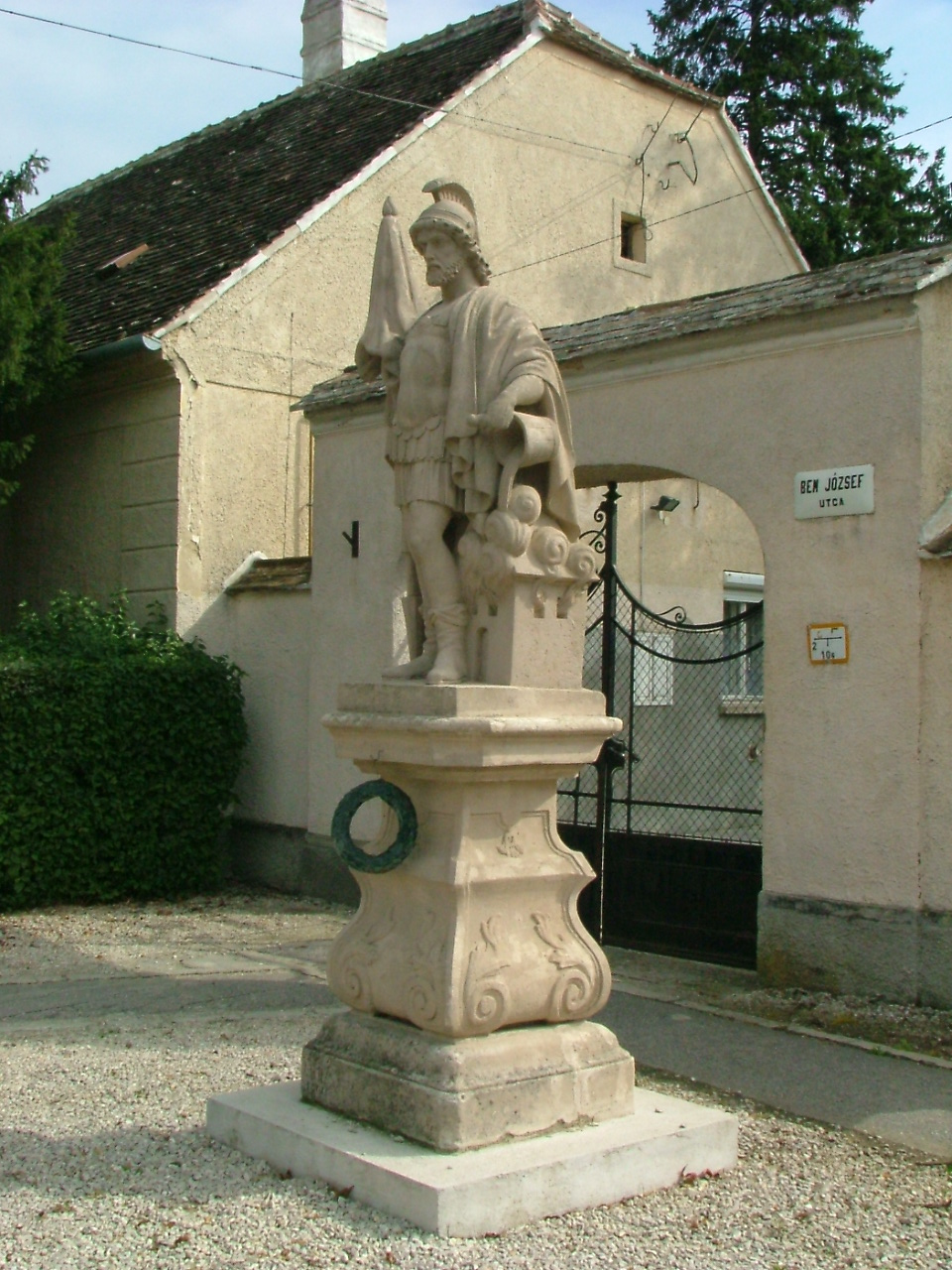 Sculpture of Saint Florian in Sopronhorpács This is a photo of a monument in Hungary, Identifier: 5105